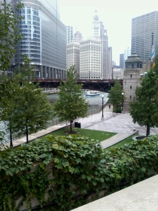 540 x 720, JPEG.